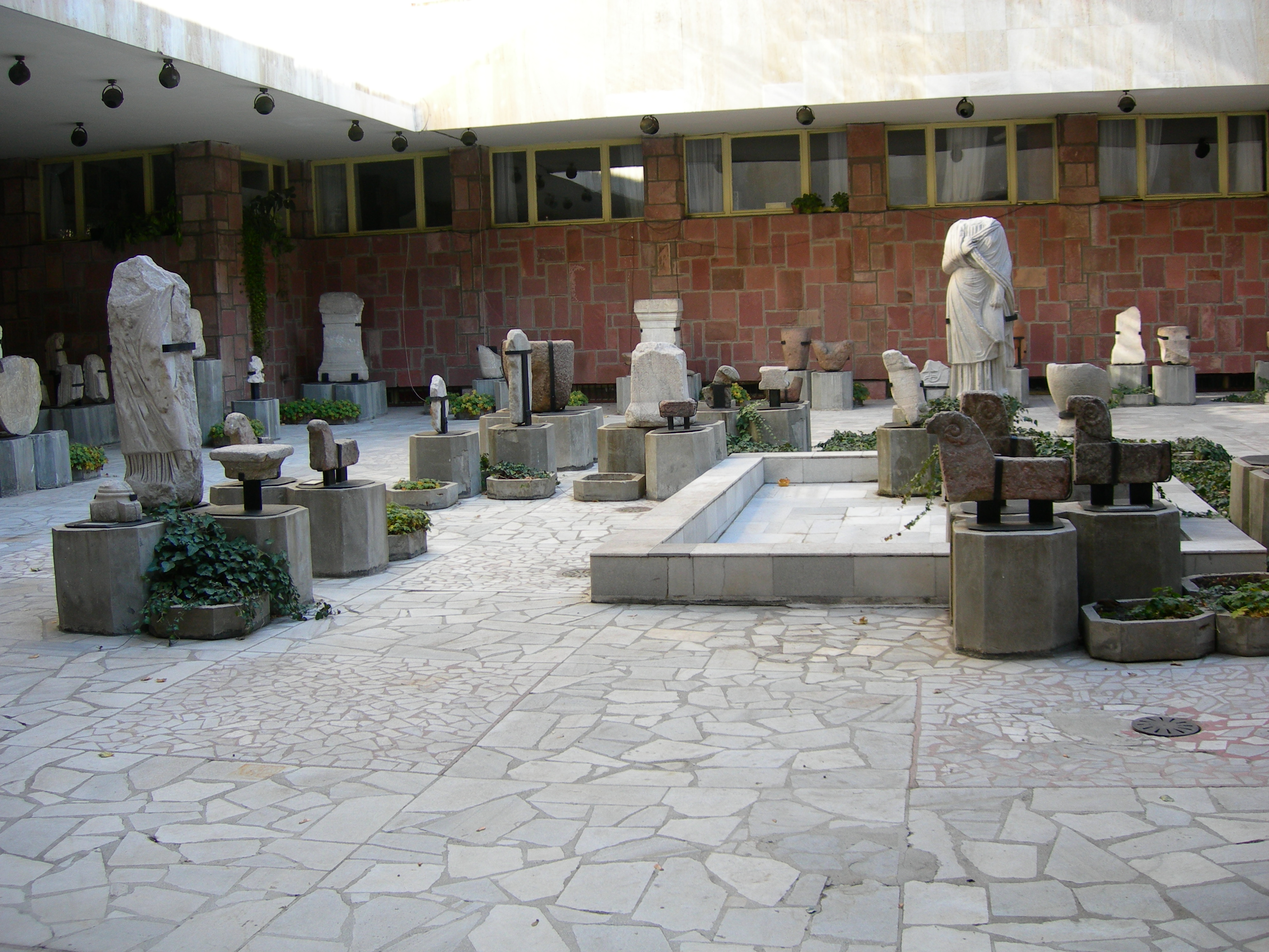 Interior of Pazardzhik History Museum, Bulgaria